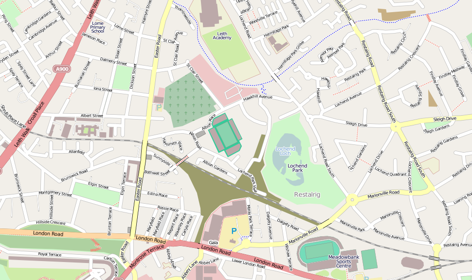 Locality of Easter Road football stadium, Edinburgh.